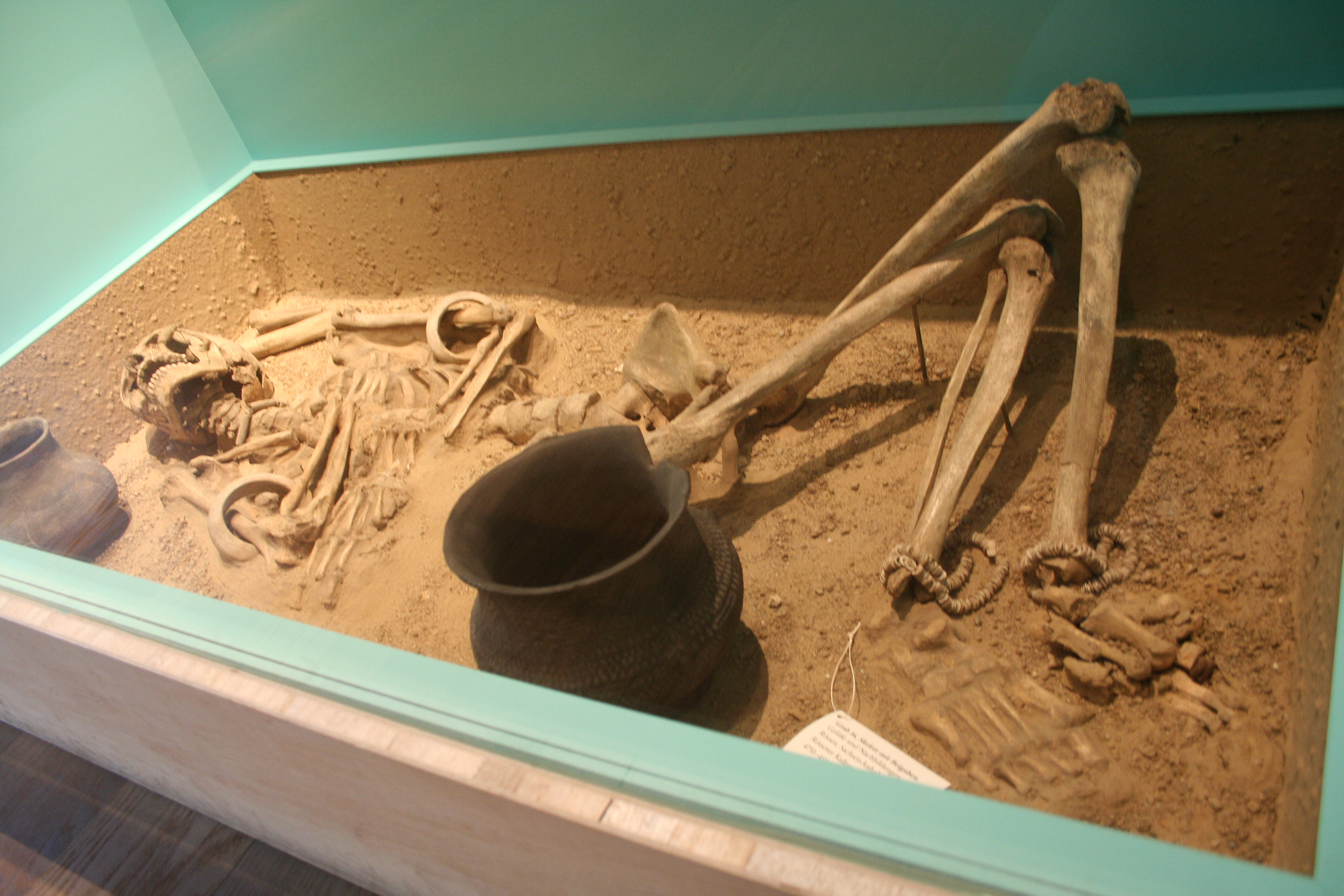 Museum für Vor- und Frühgeschichte (Museum of prehistory and early history), Berlin